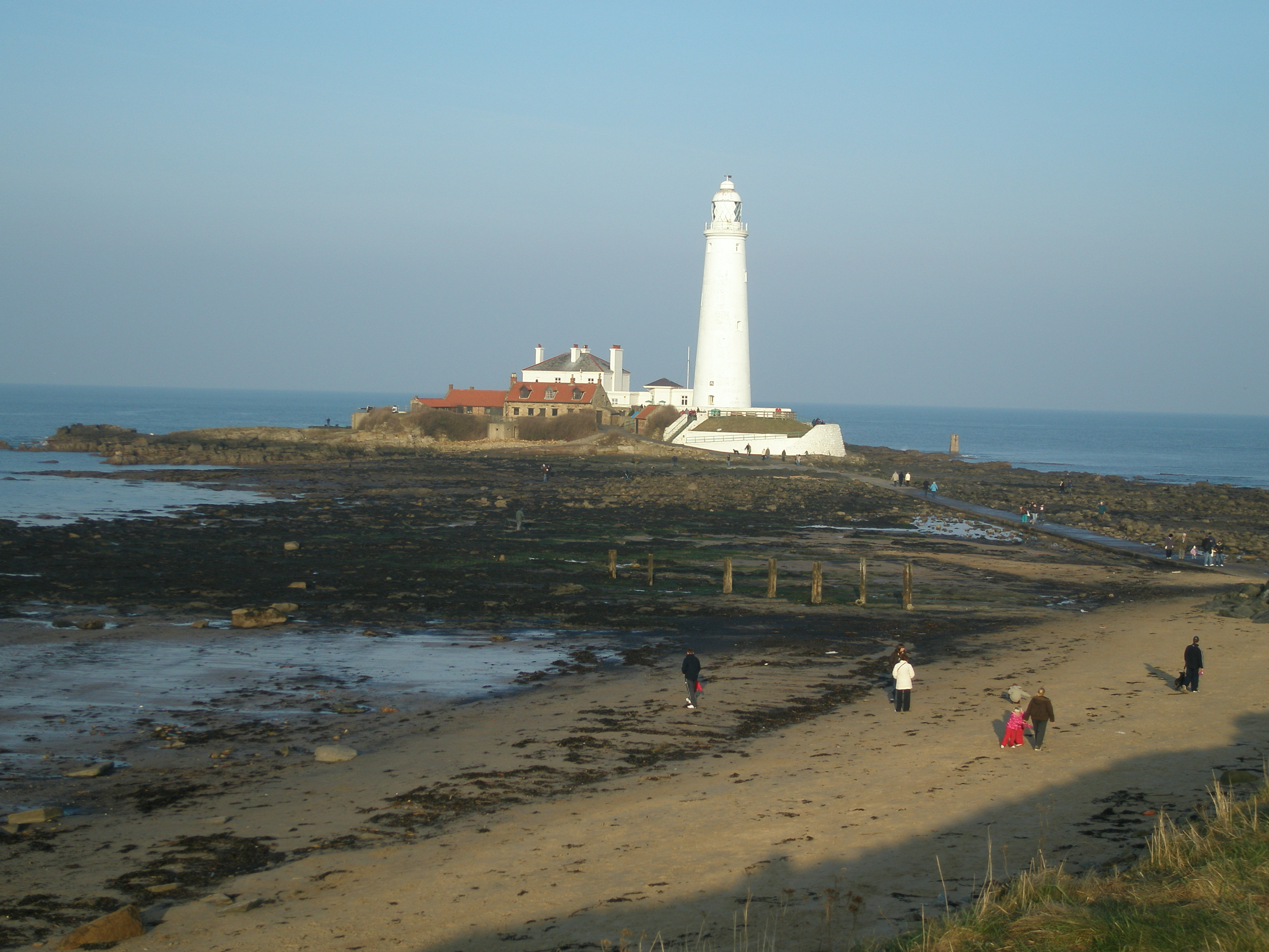 Photo of St Mary's Island in Whitley Bay